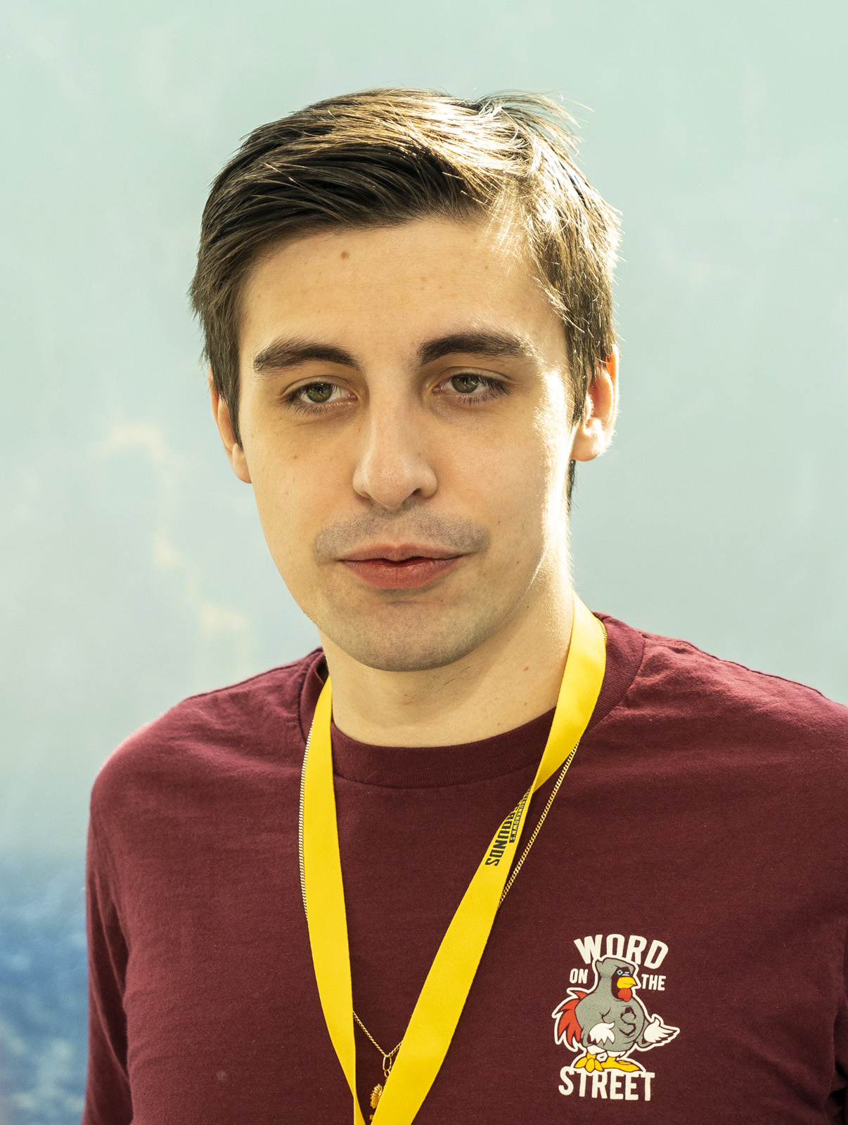 Shroud at PUBG PGI 2018